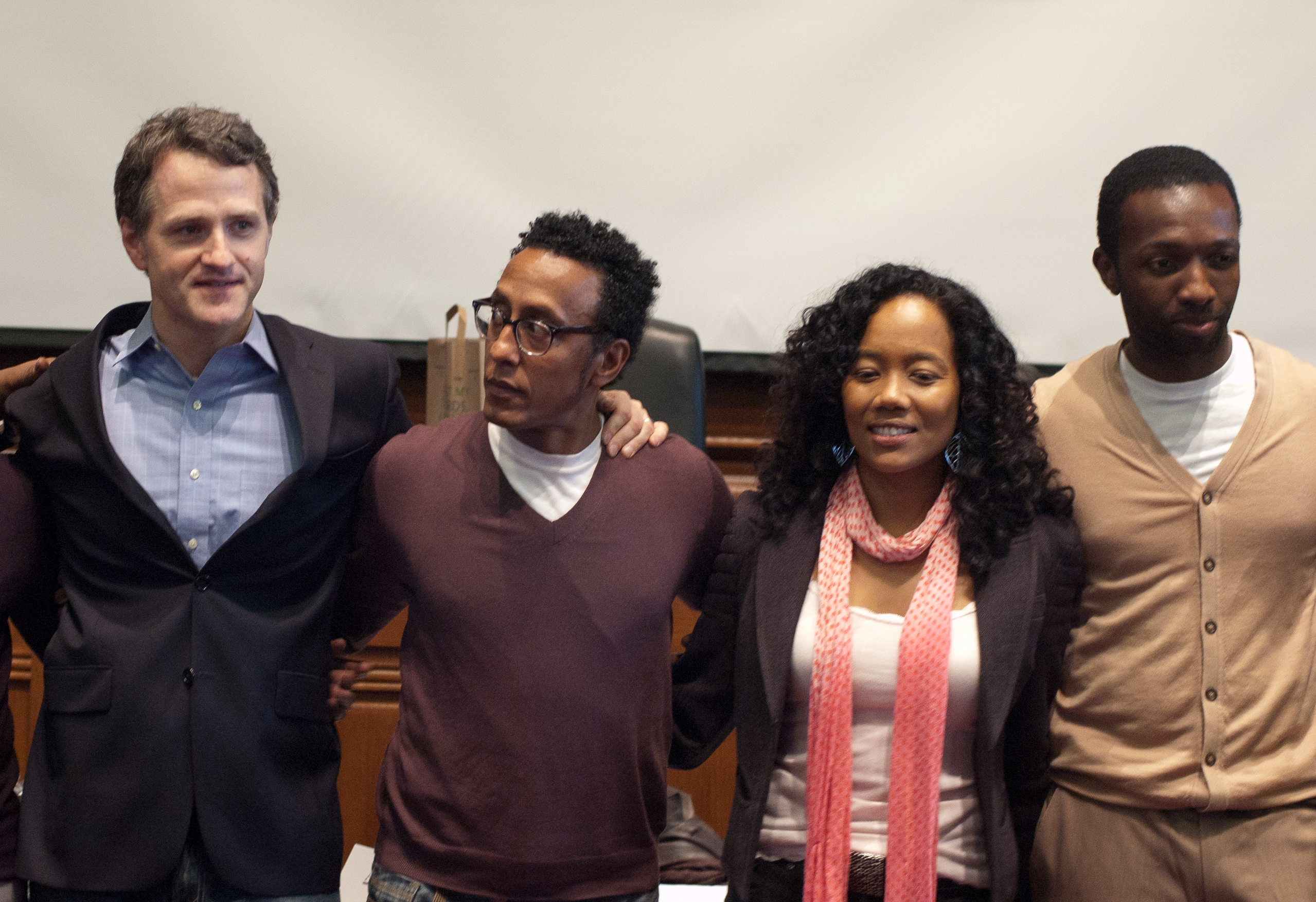 From the April 12, 2010 presentation on "The Wire" at Charles Ogletree's seminar at Harvard University Law School. From left: Jim True-Frost, Andre Royo, Sonja Sohn, Jamie Hector.